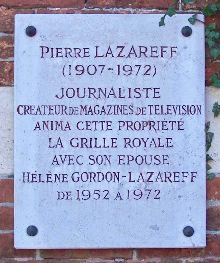 Commemorative plate for Pierre Lazareff in Louveciennes (Yvelines, France)